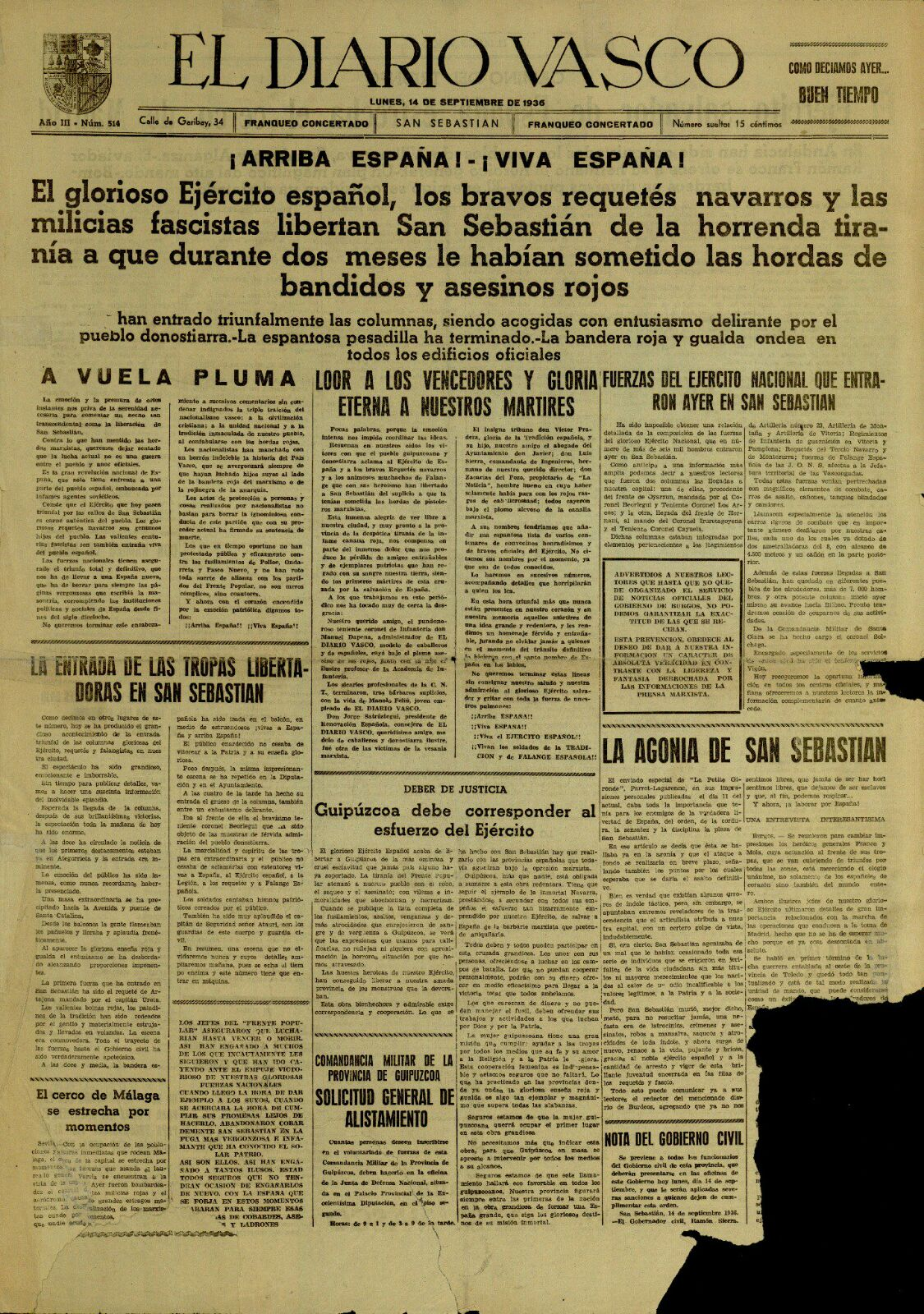 Newspaper El Diario Vasco's front page in September 1936 following the city's fall to the Nationalist rebels